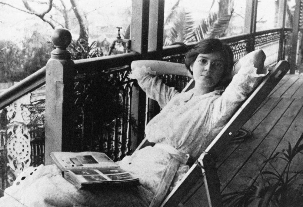 Nurse Nellie Lambton relaxing at home with her photograph album, Townsville, ca. 1919. In 1919, after completion of nursing training at Townsville Hospital, Miss Lambton married the famous Anton Breinl. Dr. Breinl was the inaugural director of the first medical research establishment in Australia, the Australian Institute of Tropical Medicine. Both were accomplished musicians and provided an oasis of culture in the tropics. Nellie was particularly strong in her support for Dr. Breinl during the public campaign to denigrate him during World War I. (Description supplied with photograph).